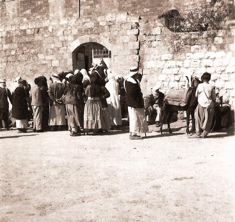 Helping people age, People of Israel